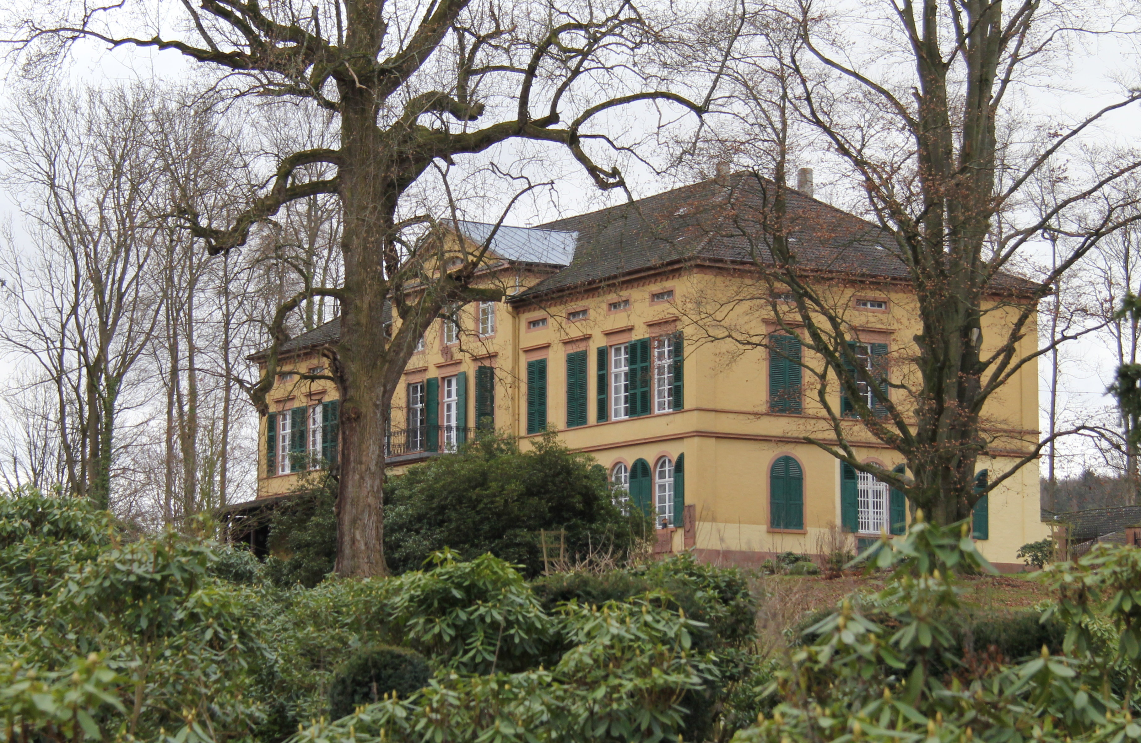 Unterbessenbach Manor in Lower Franconia in Bavaria, Germany